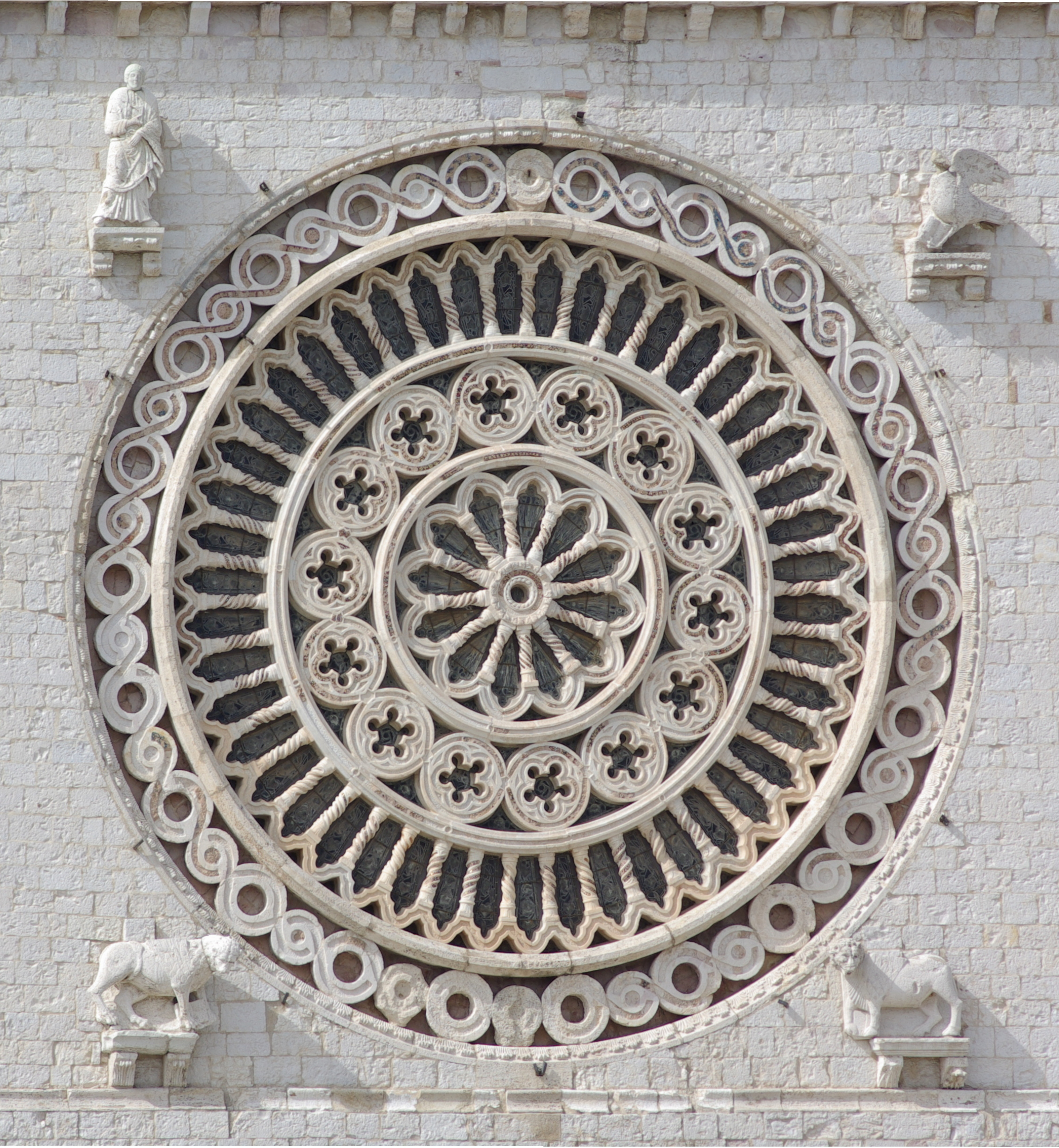 Assisi, Basilica San Francesco, Rose window